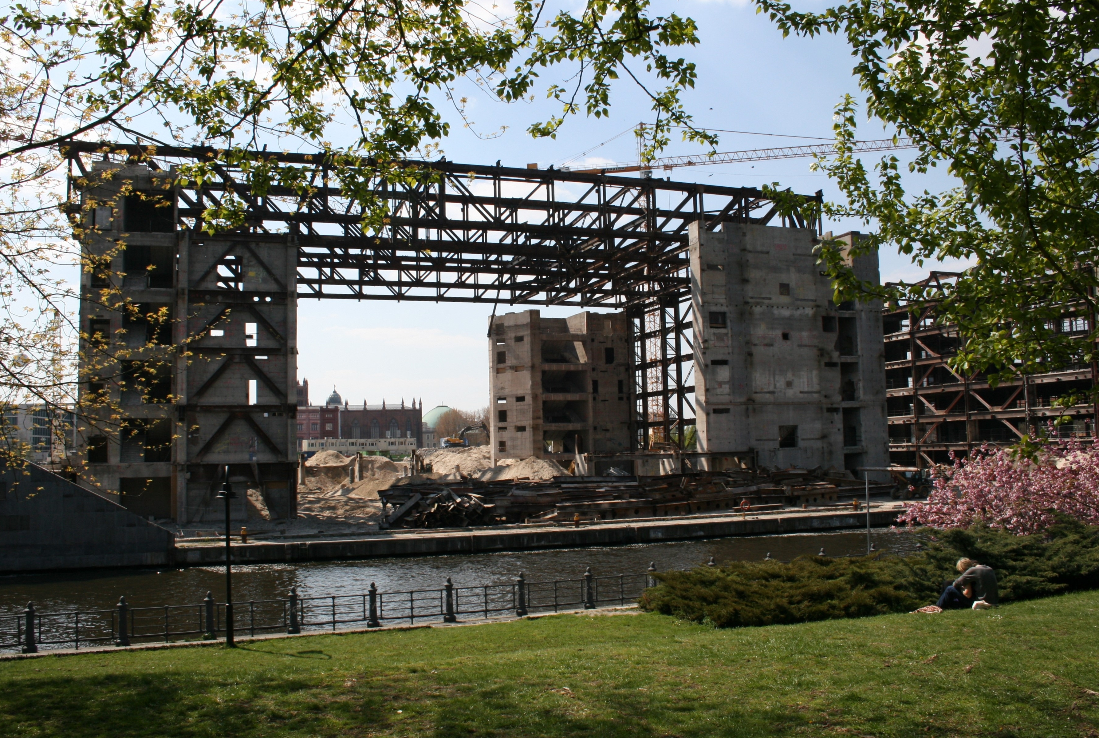 Berlin, Germany: Palast der Republik, (republic's palace) back construction